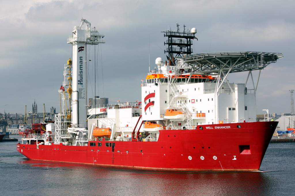 The newest addition to the Helix Well Ops fleet, the Well Enhancer is designed to minimize production downtime and provide a cost-effective method of maintaining subsea production systems. With 1,100 m2 of main deck space and offloading capability, the new vessel can also perform a range of well testing procedures. Well Enhancer features a 150 ton multipurpose tower capable of deploying wireline, slickline and coiled tubing tools. The vessel also features kill pumps, an intervention lubricator control system and an active heave compensated main winch.